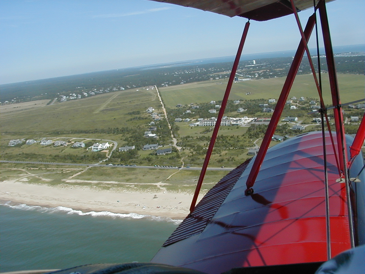 Aerial view of Katama (Edgartown) airfield in Edgartown, MA. Photo shows the airfield on the left and Katama Farm on the right. South Beach is at the bottom of the photo. The road running vertically in the center of the photo is Mattakesett Way, separating the airfield on the left and Katama Farm on the right. The Katama Farm and Katama Airfield are protected in perpetuity. The grass airfield, maintained as a grassy field by periodic burning of small sections, hosts one of the largest collections of endangered plant and animal species in the Commonwealth of Massachusetts.